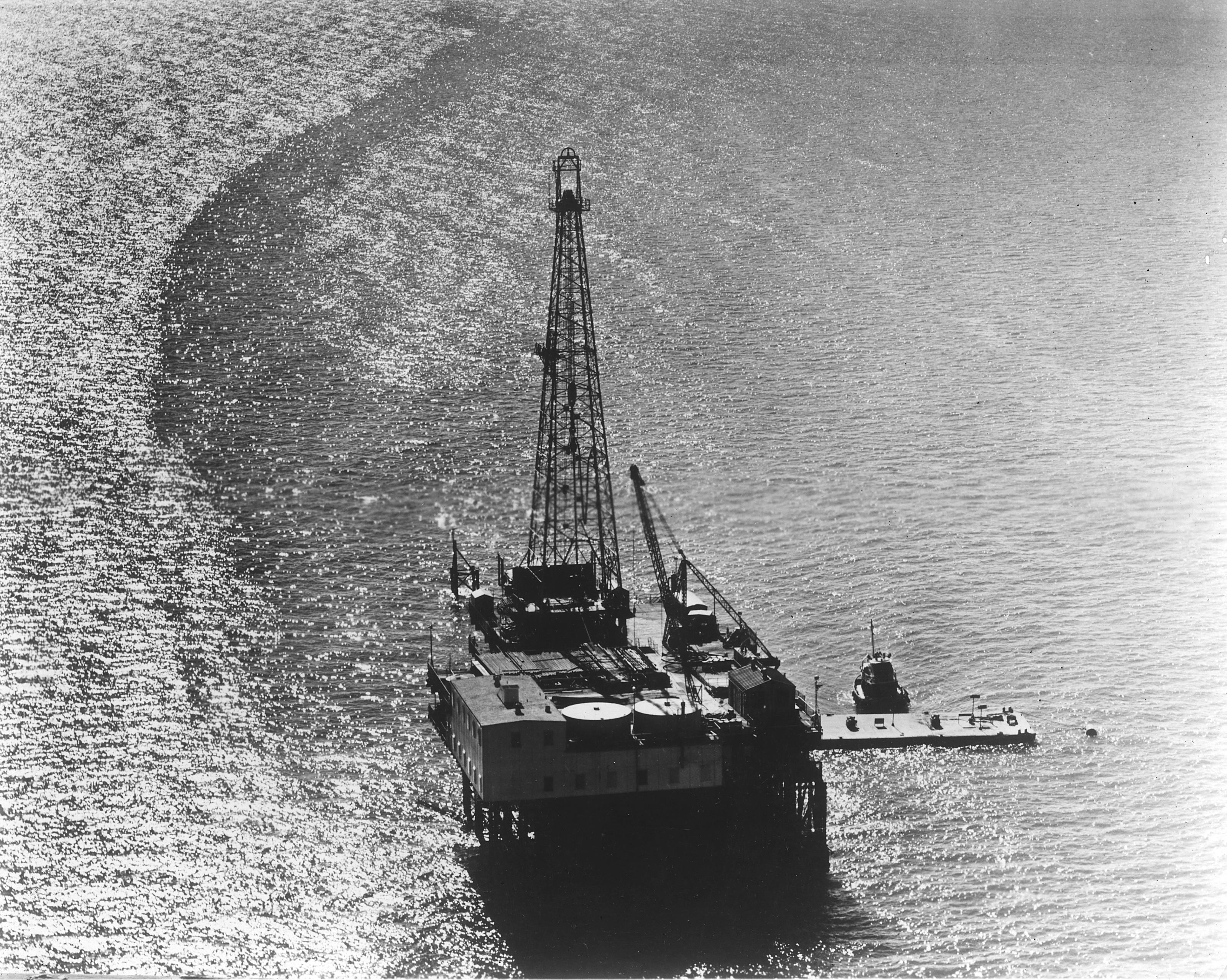 Offshore drilling is the new frontier being explored to meet the increasing demand for petroleum. c. 1970 For more information or additional images, please contact 202-586-5251.